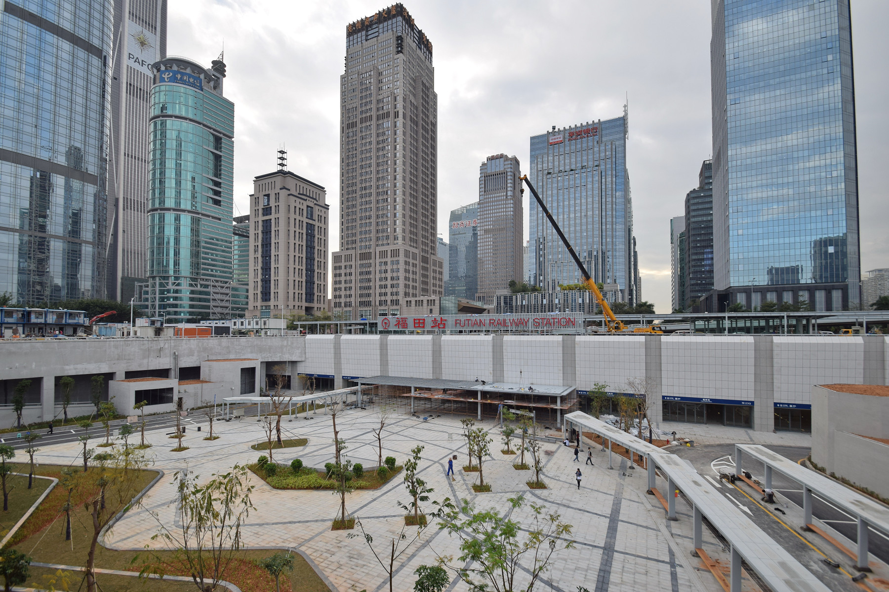 Futian Railway Station, Guangzhou-Shenzhen-Hong Kong High-Speed Railway